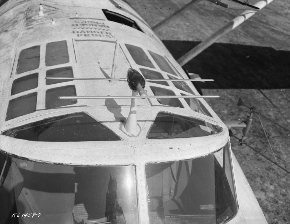 Centred in this image is the transmitter antenna of an ASV Mk. II radar installed on a Royal Canadian Air Force Consolidated Canso (PBY) aircraft. The left-hand receiver can be see on the extreme right side of the image, dark coloured. Note that the receiver is canted to the side, so that it is more directional and reaches peak sensitivity about 15 degrees to the left. Both antennas use the yagi array principle. with an active element and a passive reflector or director. The ASV Mk. II used two sets of antennas, a forward-firing set seen here, and an optional side-firing set that would be installed on the rear of the fuselage. The side-firing antennas would not be visible in this image even if installed.